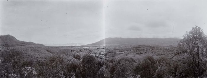 View from the 'Paal Lima' plantation over the plateau and lake